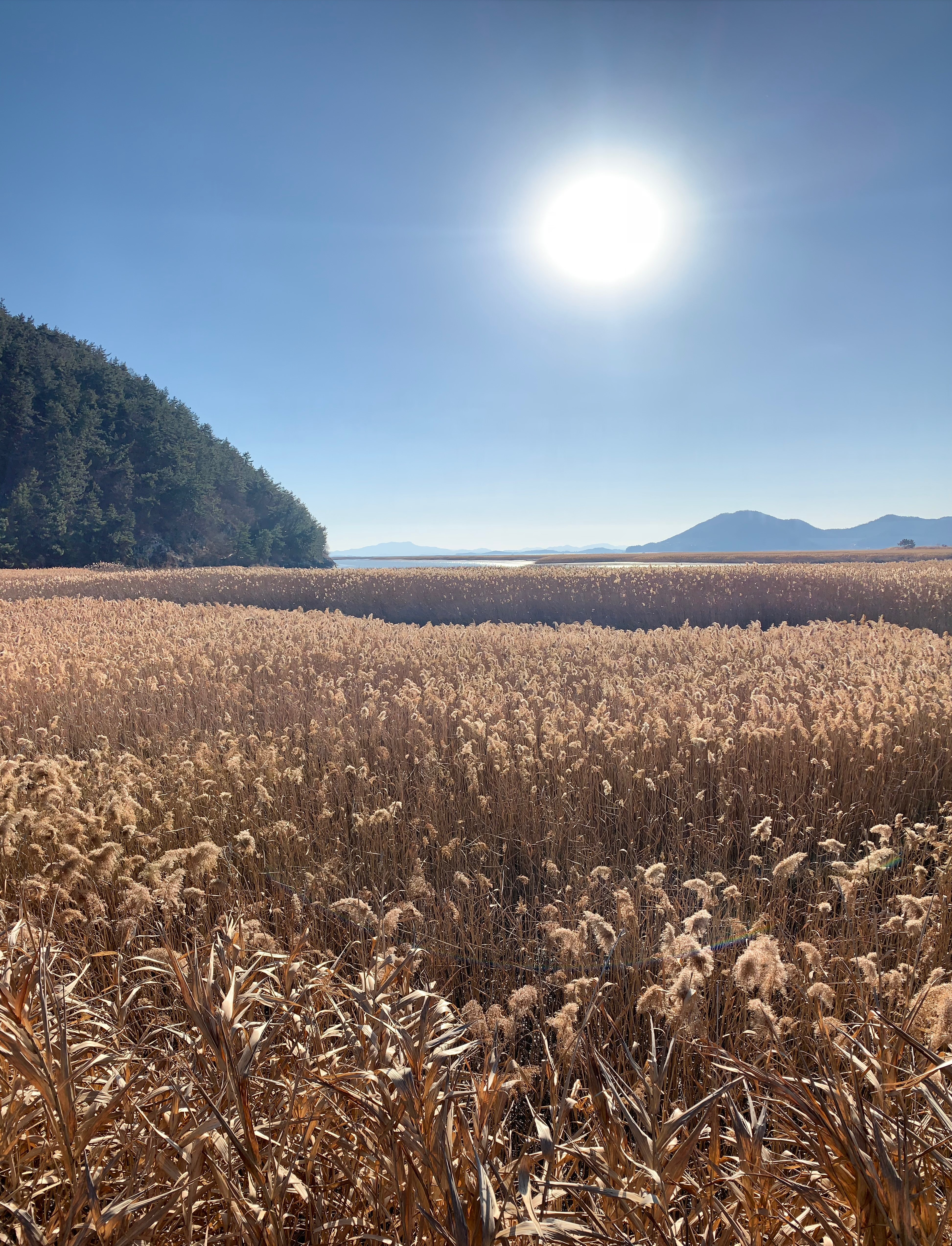 Suncheon Bay, a Ramsar site in South Korea